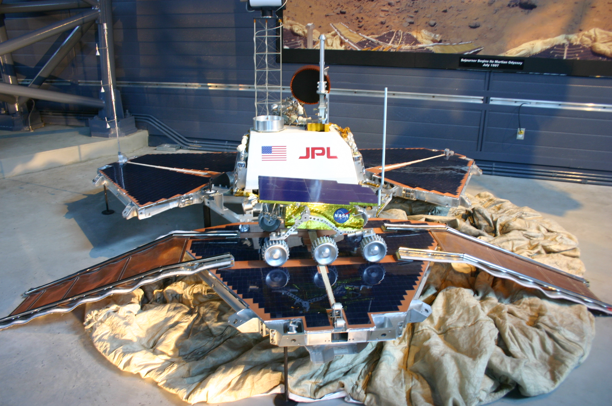 Model of the Mars Pathfinder Lander and Sojourner Rover Taken at the National Air and Space Museum Steven F. Udvar-Hazy Center: James S. McDonnell Space Hangar in Dulles, VA.